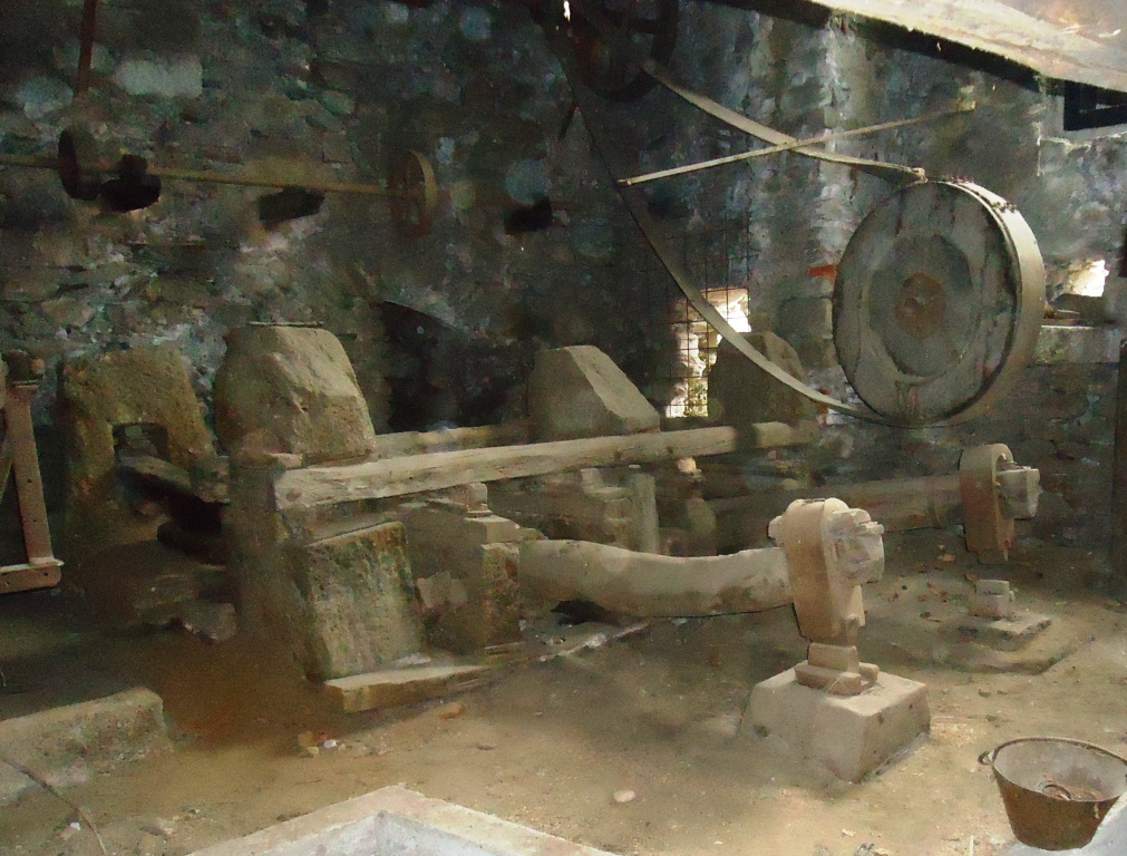 Belt drive and the hammers of the old Forge at Bruzolo, Italy.